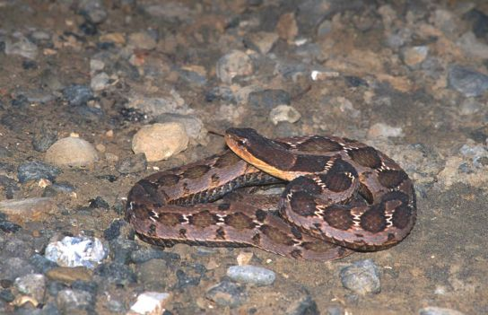 Macropisthodon rudis from Taiwan